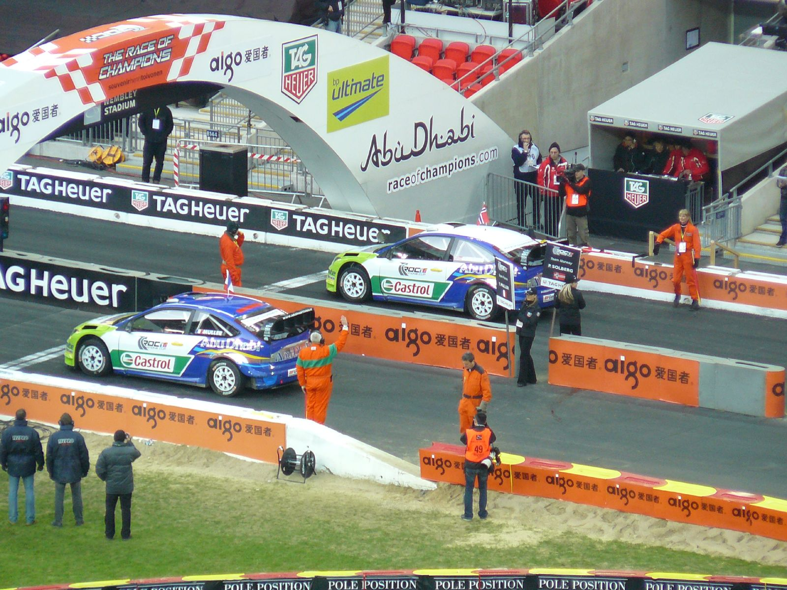 Yvan Muller and Petter Solberg with Ford Focus WRC cars at the startline of the 2007 Race of Champions at Wembley Stadium.